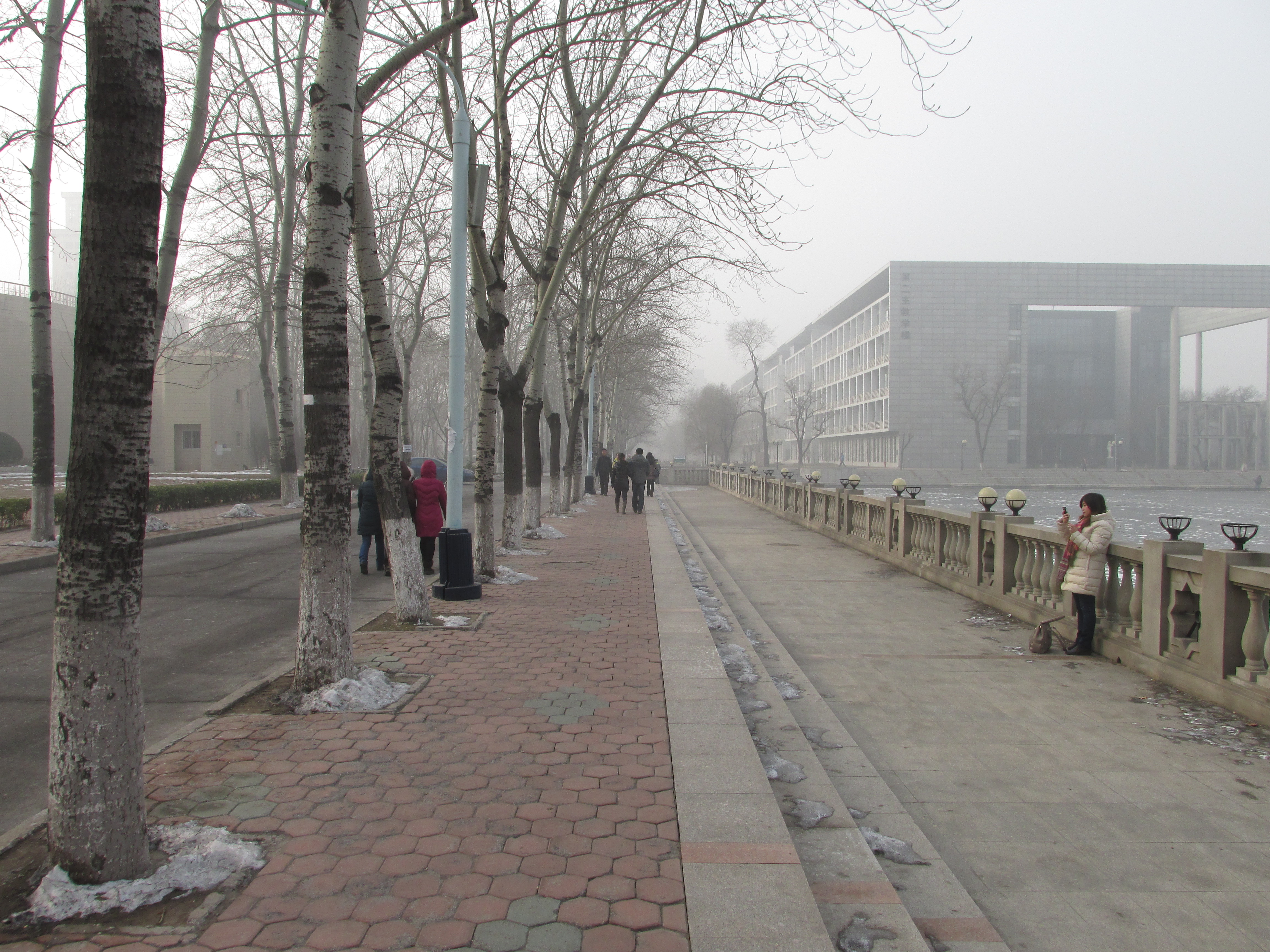 Street of Nankai University campus in winter